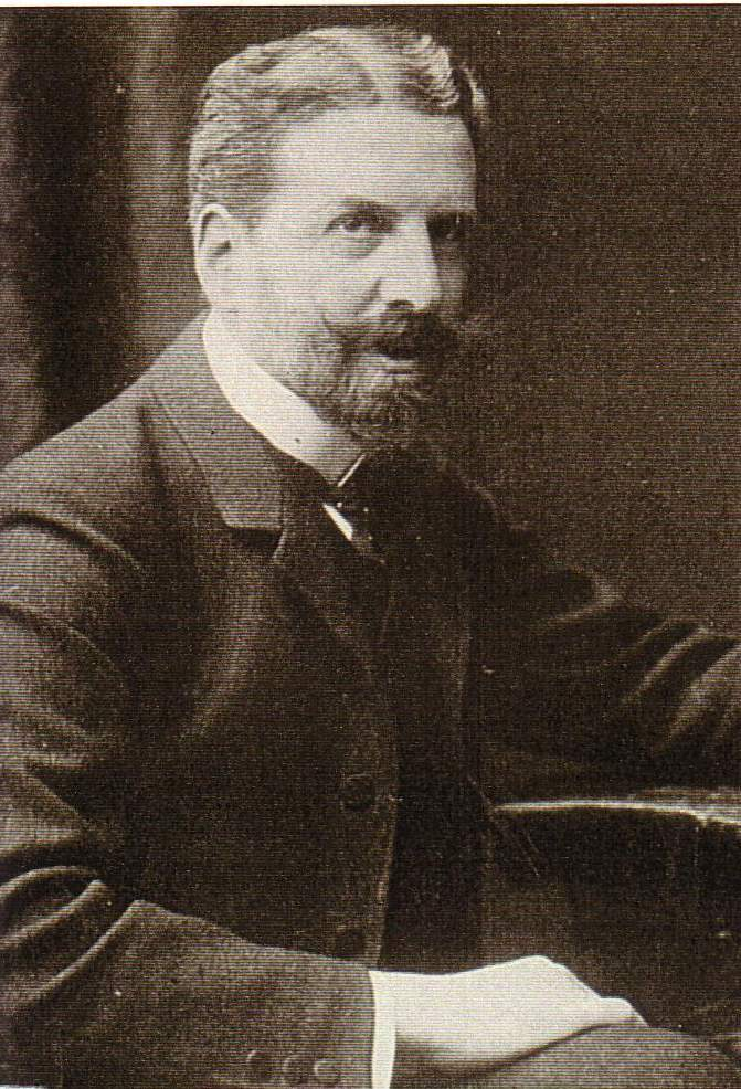 Simon von Nathusius, professor, Halle